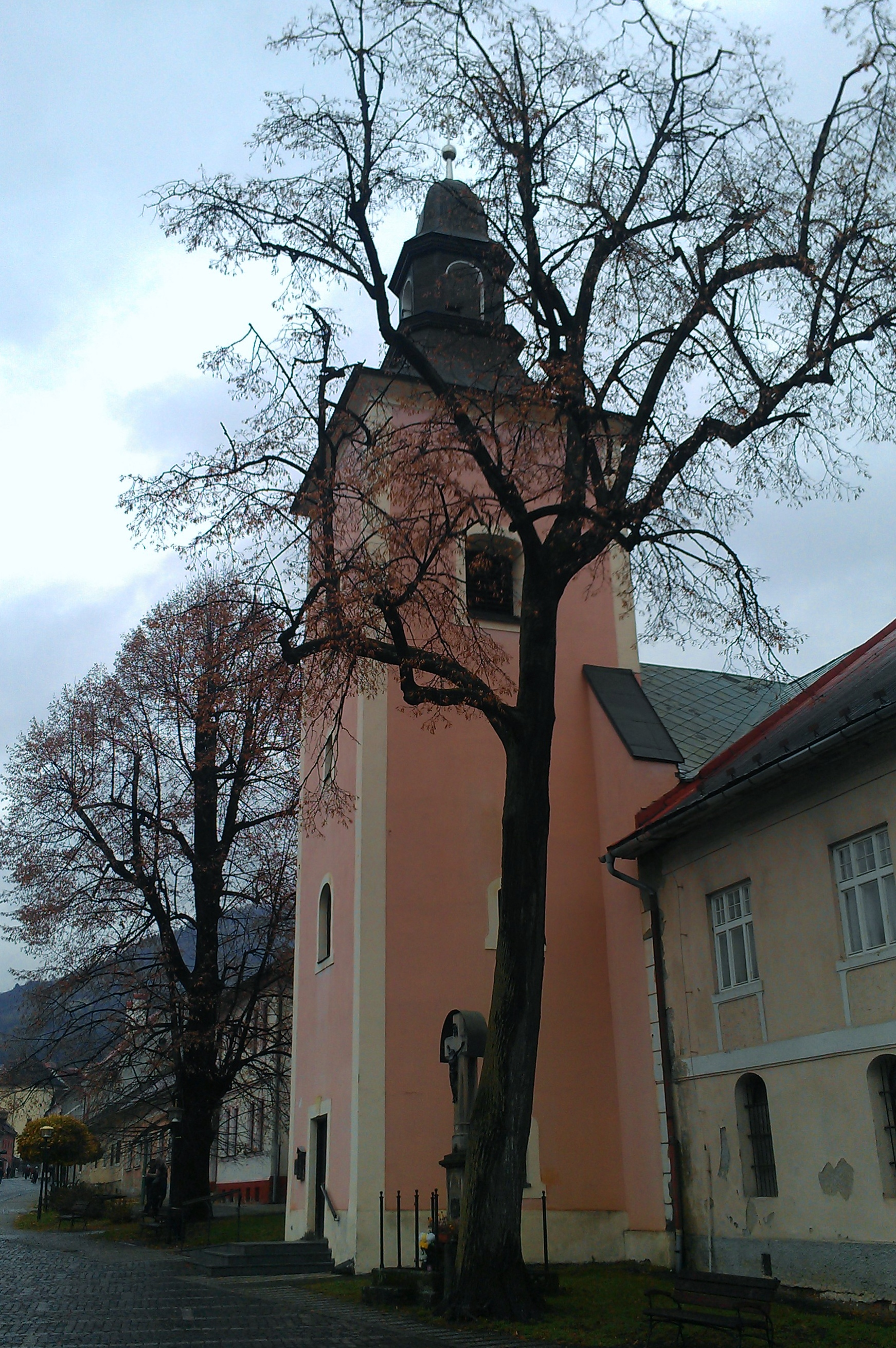 Saint Elisabeth Church, Kremnica, Slovakia